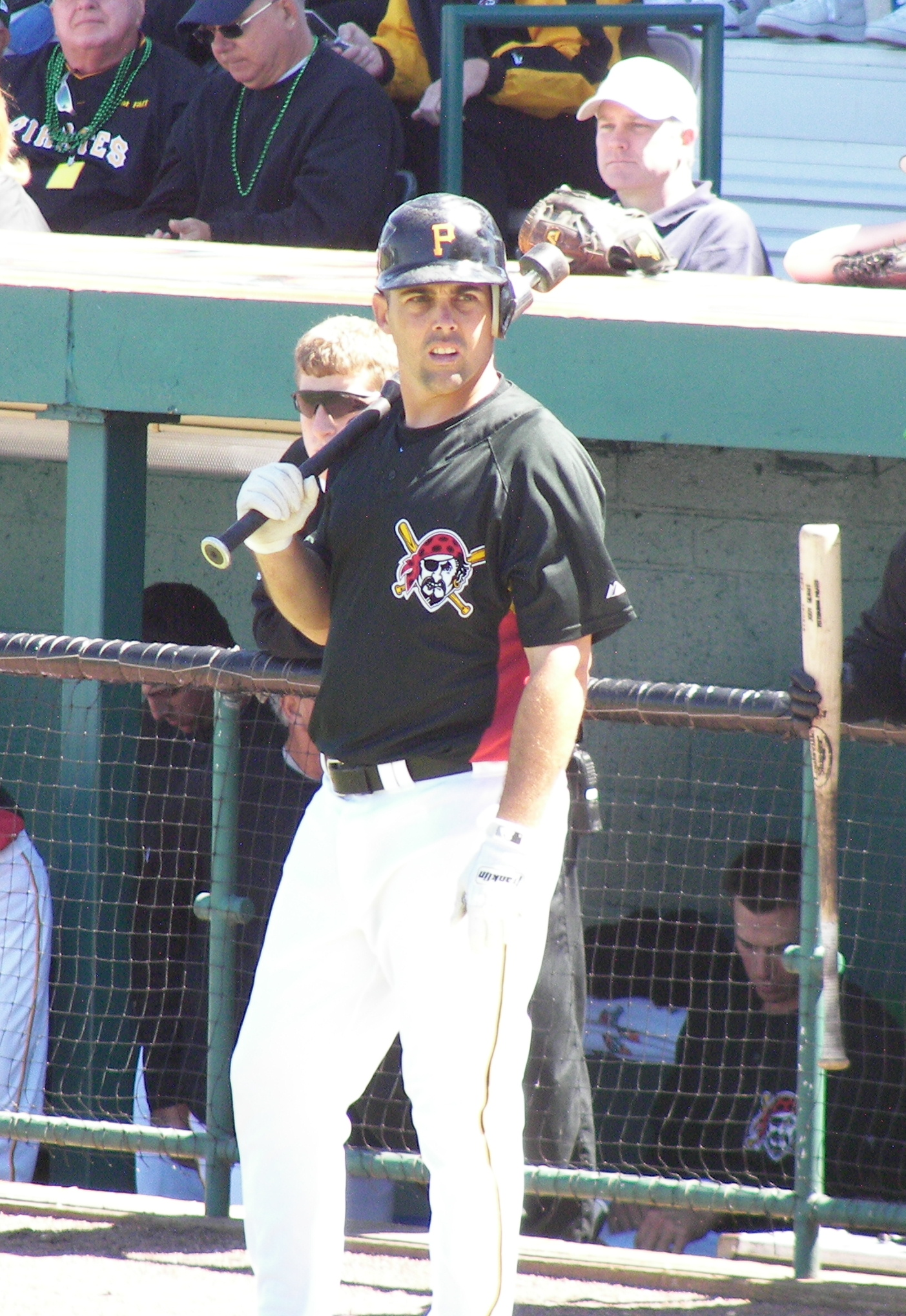 Pittsburgh Pirates shortstop Jack Wilson during a Pirates/Minnesota Twins spring training game at McKechnie Field in Bradenton, Florida.